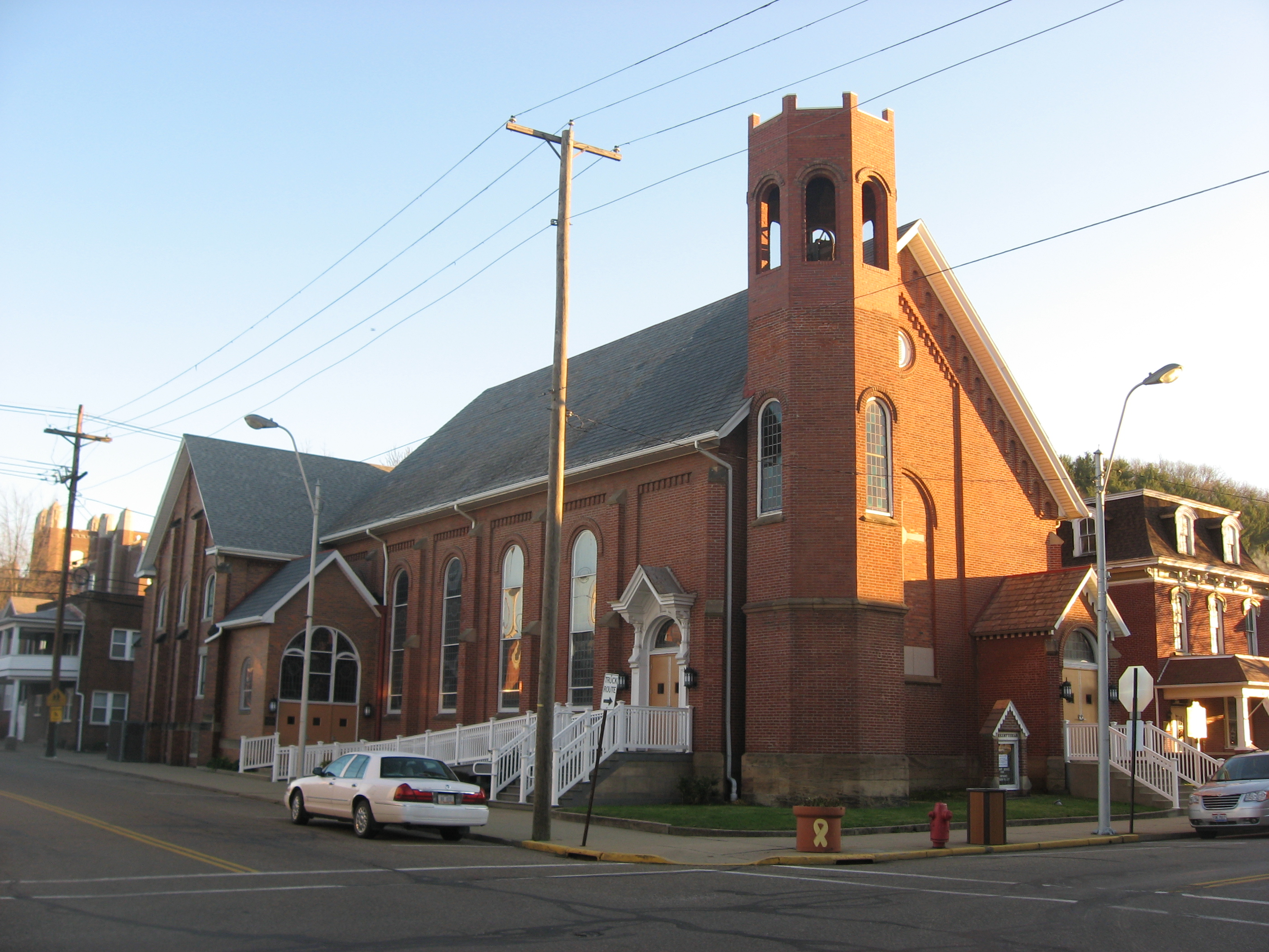 Front and western side of the Presbyterian Church of Dennison, located at 301 Grant Street in downtown Dennison, Ohio, United States. Built in 1870, it is listed on the National Register of Historic Places as "The Railway Chapel".